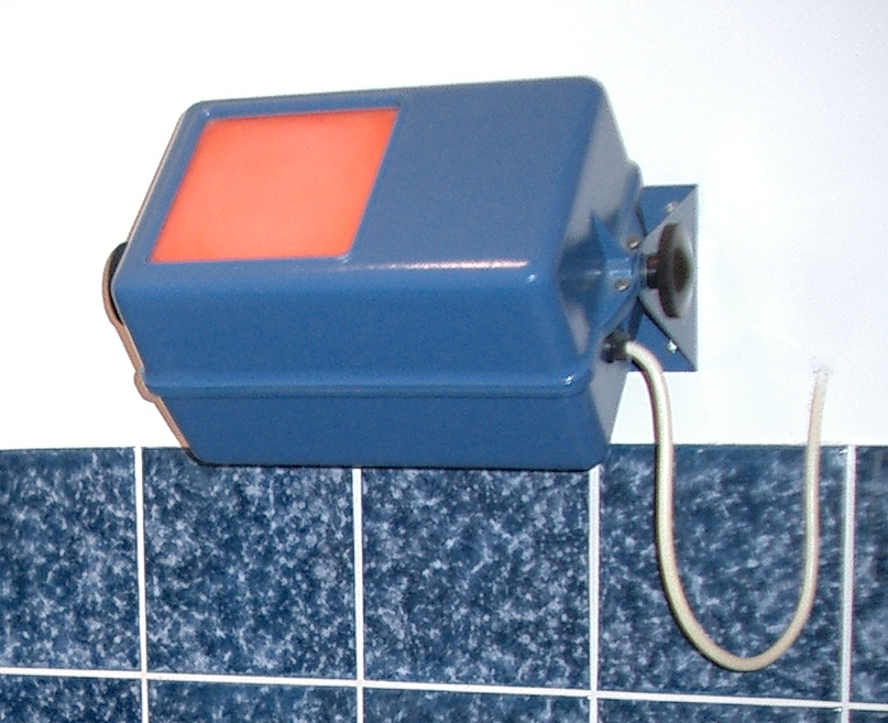 Darkroom lamp